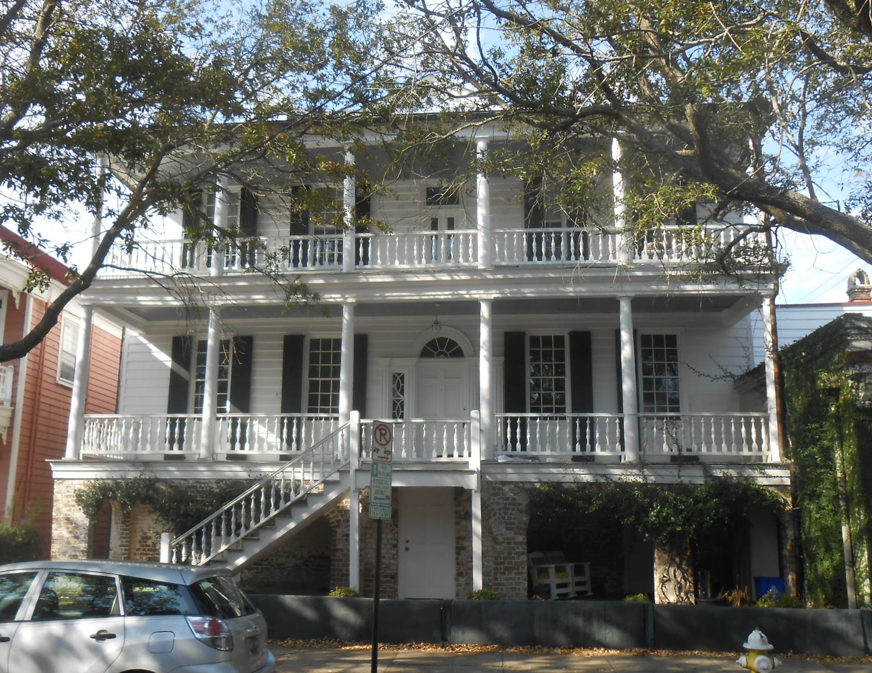 4 John Street, Charleston, South Carolina